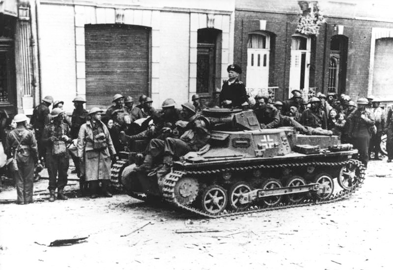 "ADN-ZB/Archive Second World War 1939-1945 At the front in France, May 1940 After the capture of Calais by fascist German troops, wounded British soldiers are brought out from the old town by German tanks. Recording: Horster" Information added by Wikimedia users.